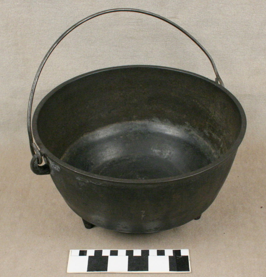 Cast iron cooking pot with bail handle and three legsTitle: Cast Iron Cooking Pot